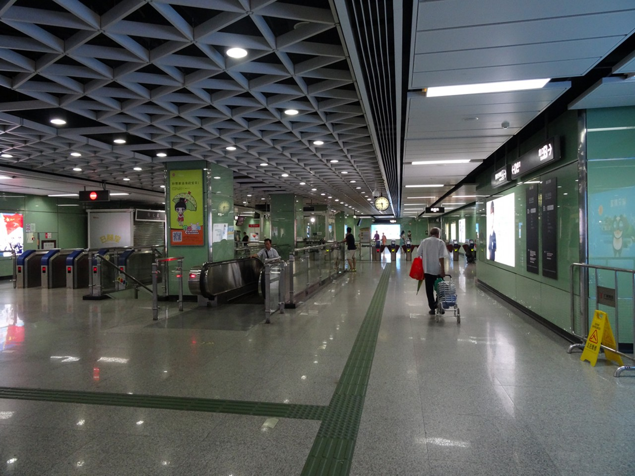 中山八站嘅站廳